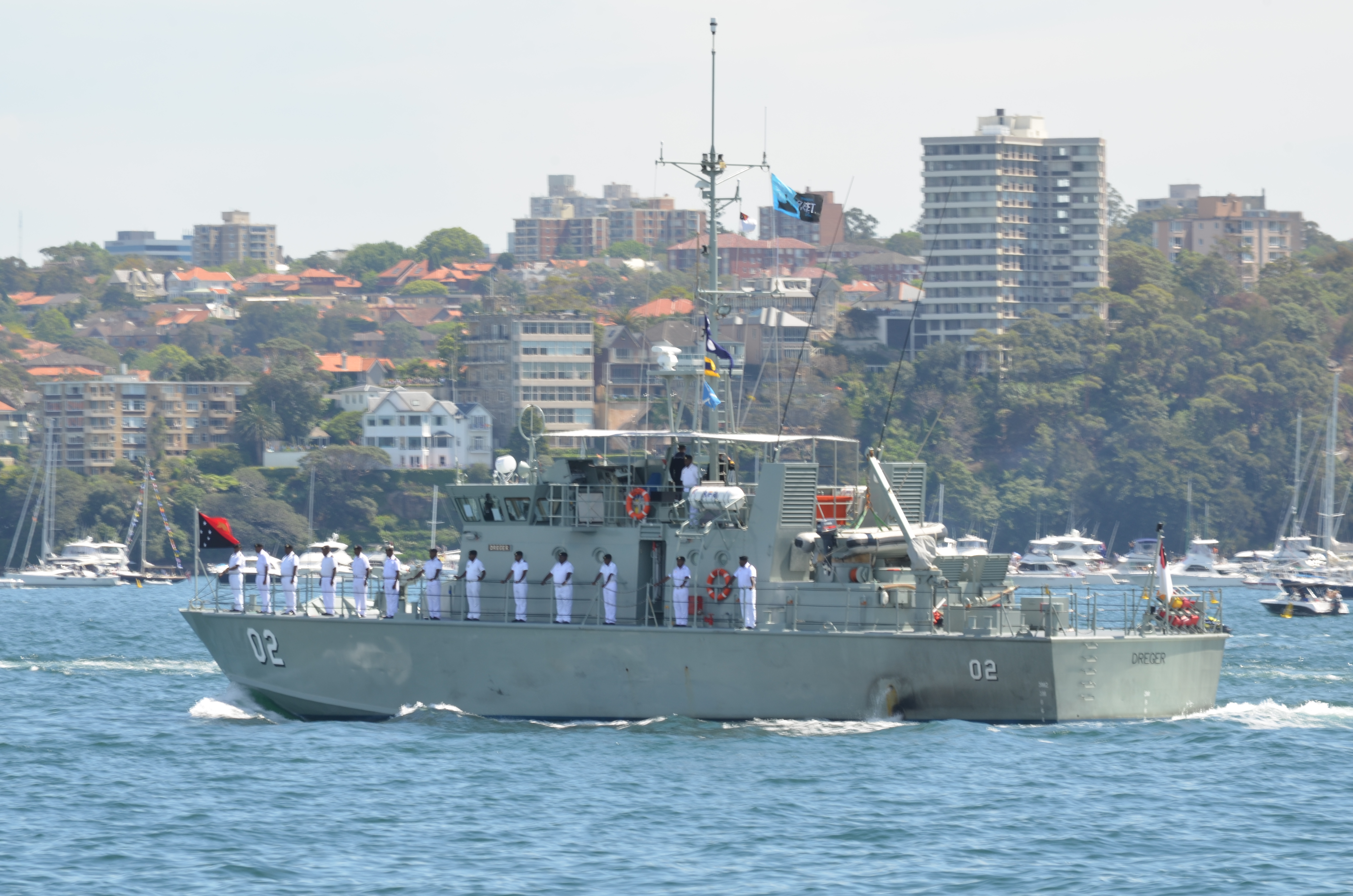 Photographs taken during day 3 of the Royal Australian Navy International Fleet Review 2013. Papua New Guinean patrol boat Dreger underway on Sydney Harbour.